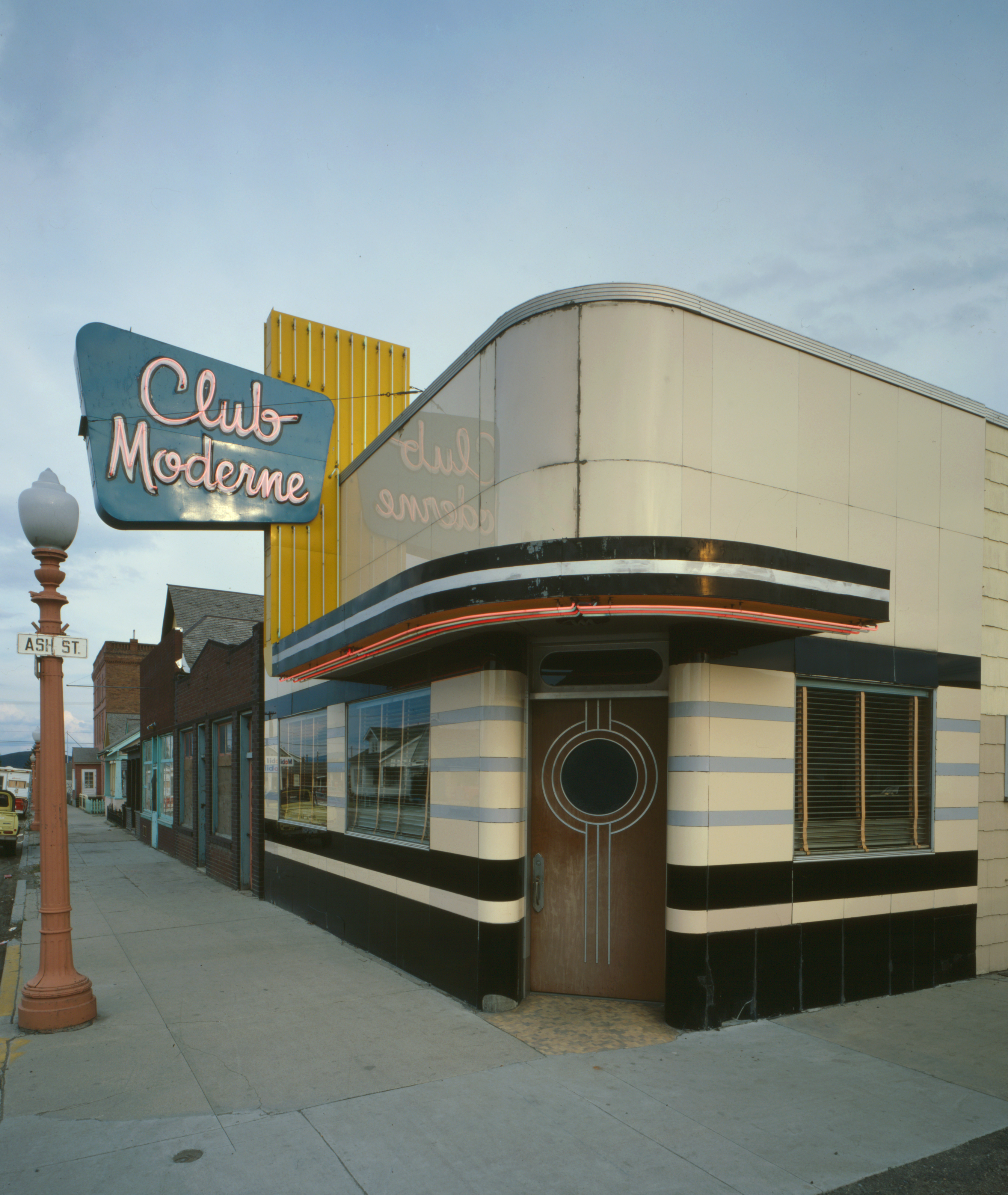 Club Moderne — Anaconda, Montana, USA. 1937 Streamline Moderne style architecture by Fred F. Willson. Historic contributing property to the Butte-Anaconda Historic District, and on the National Register of Historic Places in Deer Lodge County. 1979 photograph from the HABS—Historic American Buildings Survey images of Montana.